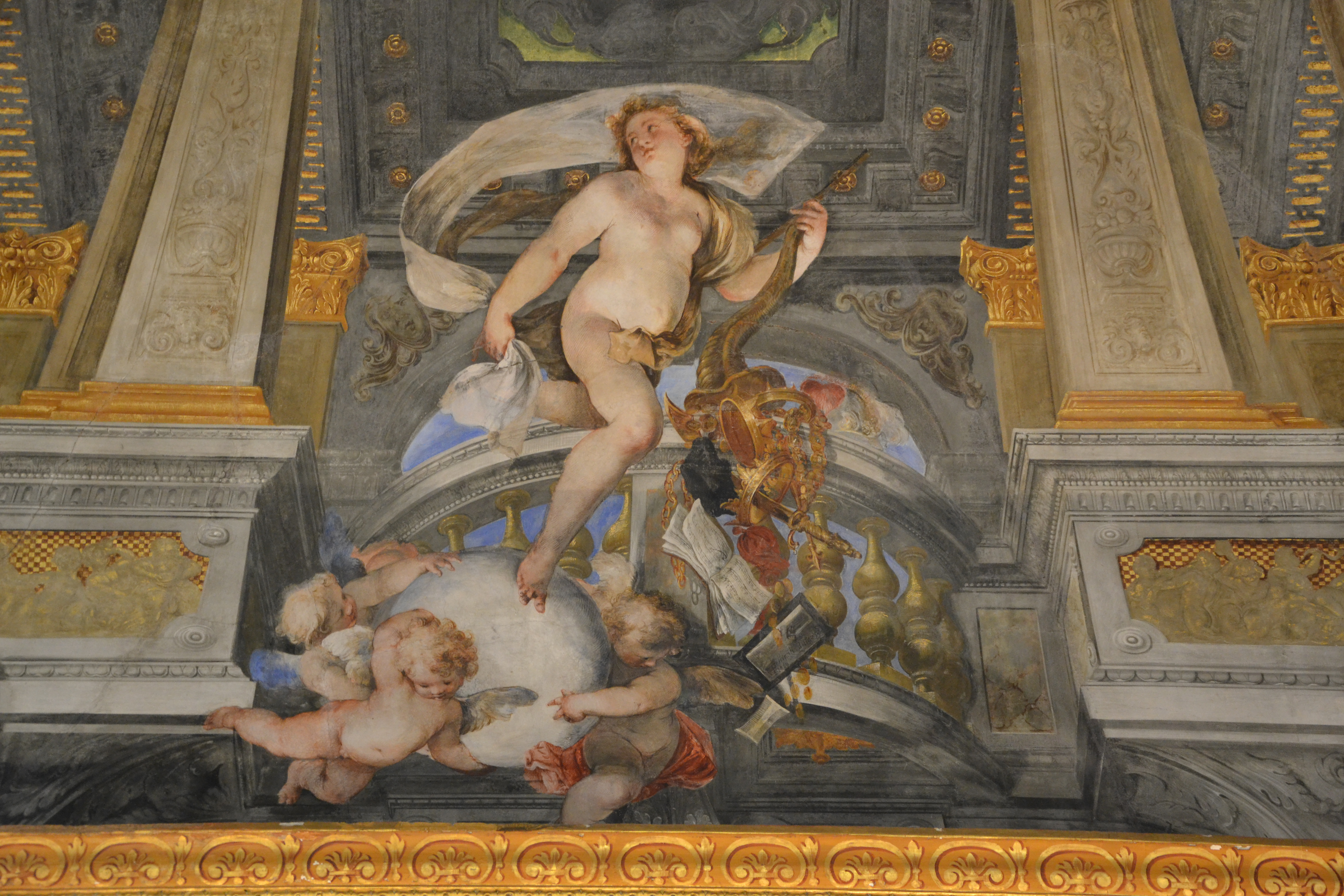 Palazzo Balbi Senarega, University of Genoa, Via Balbi 4 - Valerio Castello frescos (1654-59)